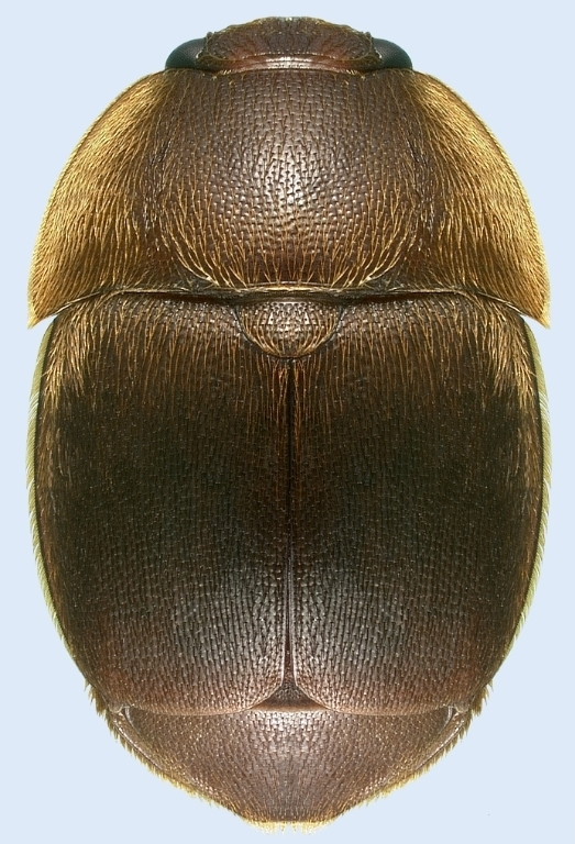 Aethina tumida Common Name: small hive beetle Photographer: Natasha Wright, Florida Department of Agriculture and Consumer Services, United States Contact: Michael C. Thomas, Florida Department of Agriculture and Consumer Services Descriptor: Adult(s) Description: Collection information: Florida: St. Lucie Co., Ft. Pierce; 5-Jun-98 Image taken in: FDACS-DPI, Gainesville, Florida, United States